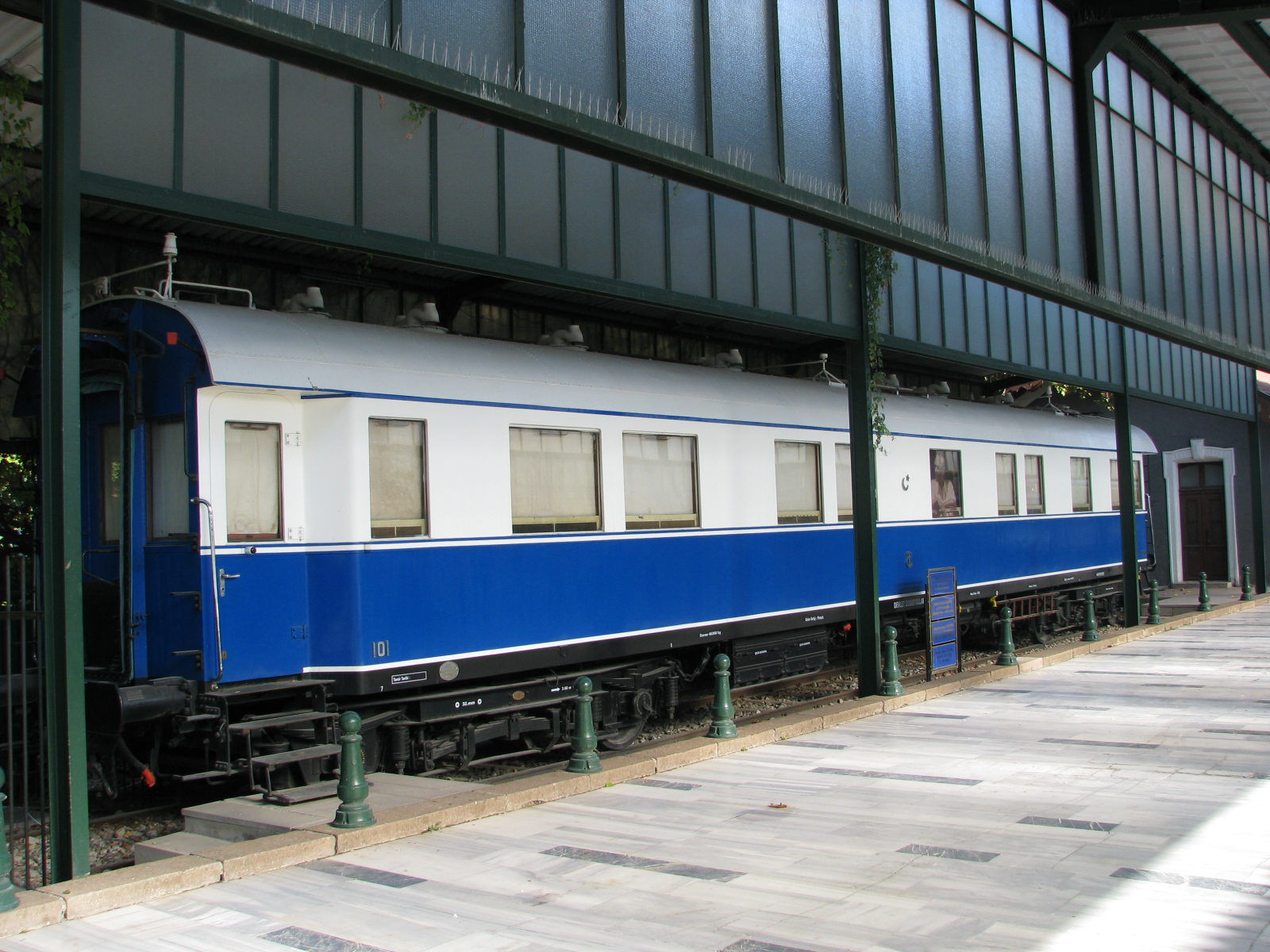 Ataturk's Coach, exhibited since 1964 at Ankara Station